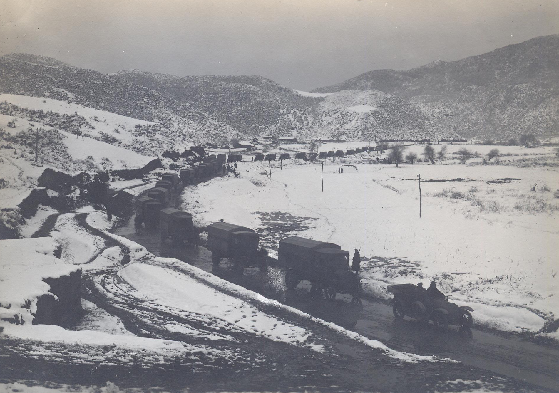 World War I, Macedonian Front